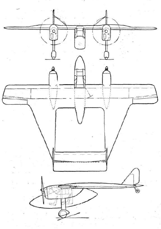 General arrangement diagram of the Willoughbu Delta 8